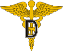 United States Army Dental insignia. Made with Photoshop.